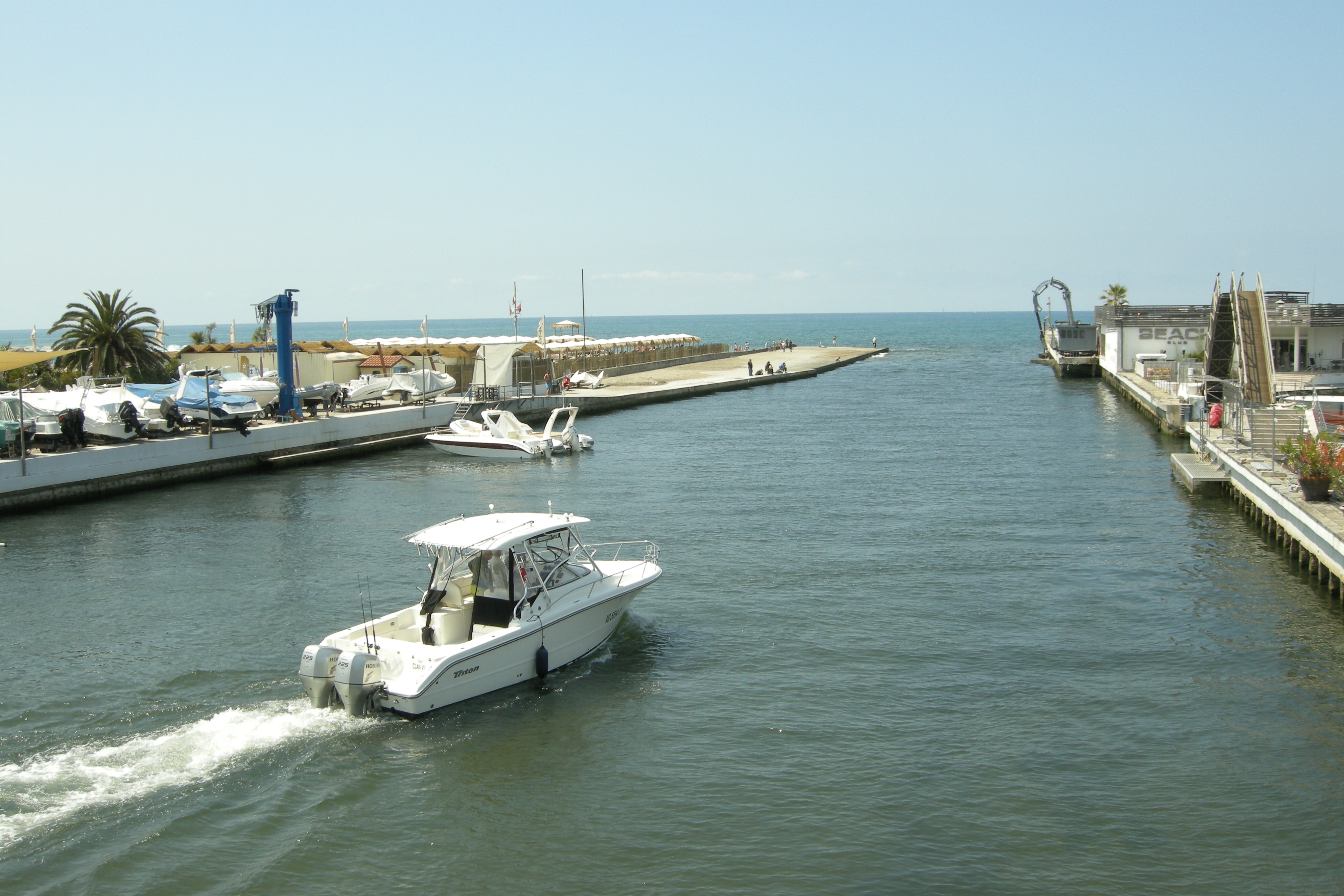 Montignoso, Italy